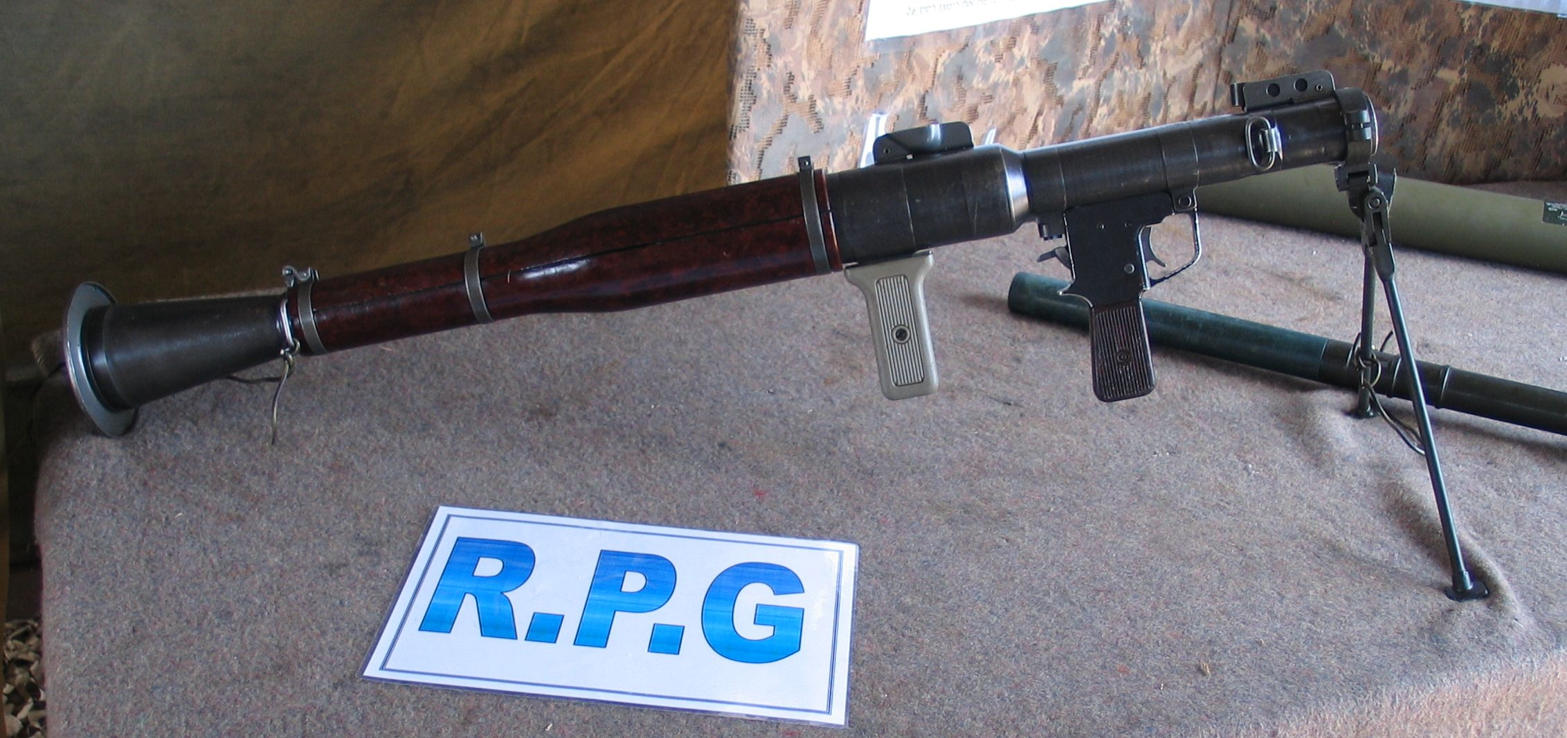 RPG-7 grenade launcher. Independence Day exhibition at Yad la-Shiryon Museum, Latrun, Israel.